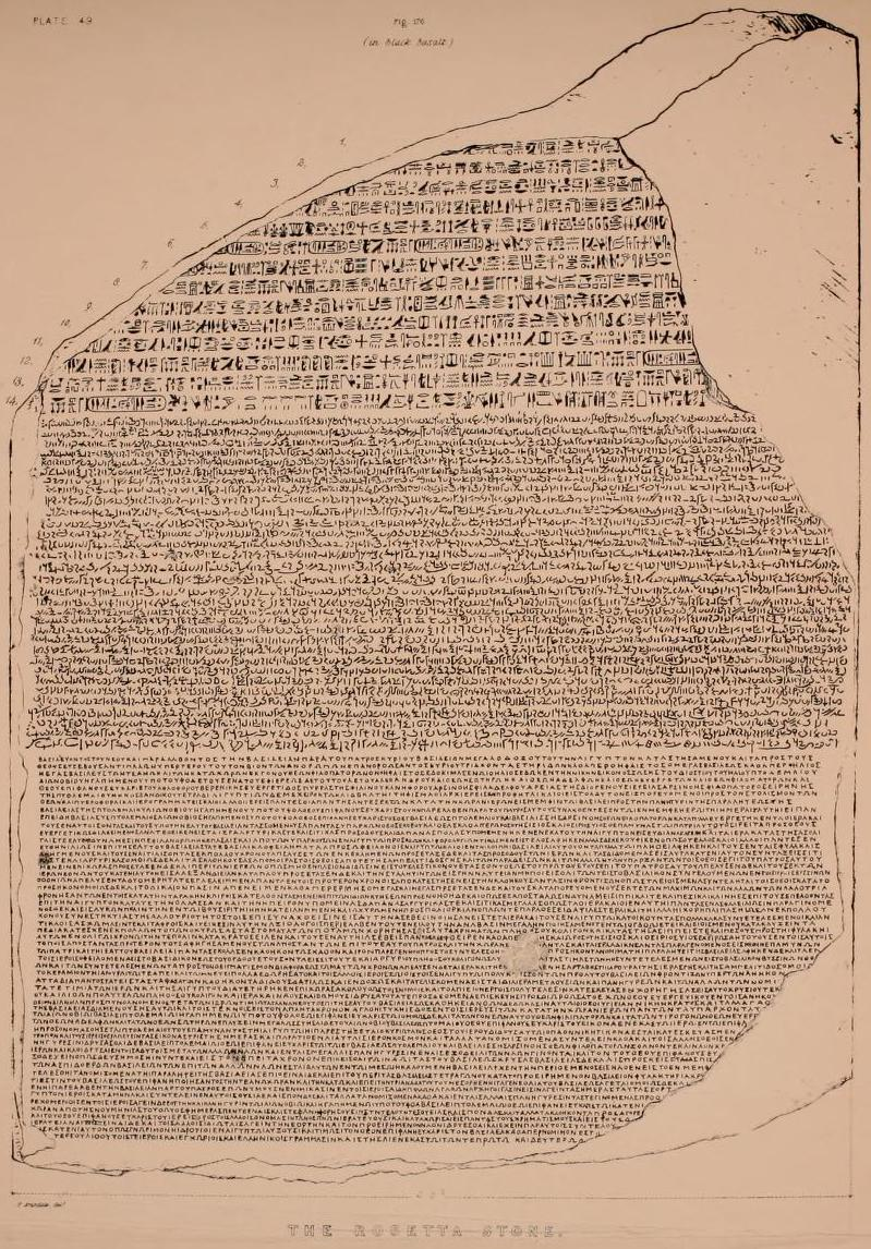 Gallery of antiquities, selected from the British Museum (1842) Figure 176 Rosetta Stone